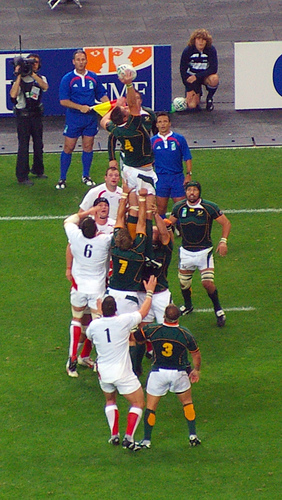 South Africa - England Rugby World Cup 2007 Saint Denis. Stade de France Bakkies Botha Victor Matfield